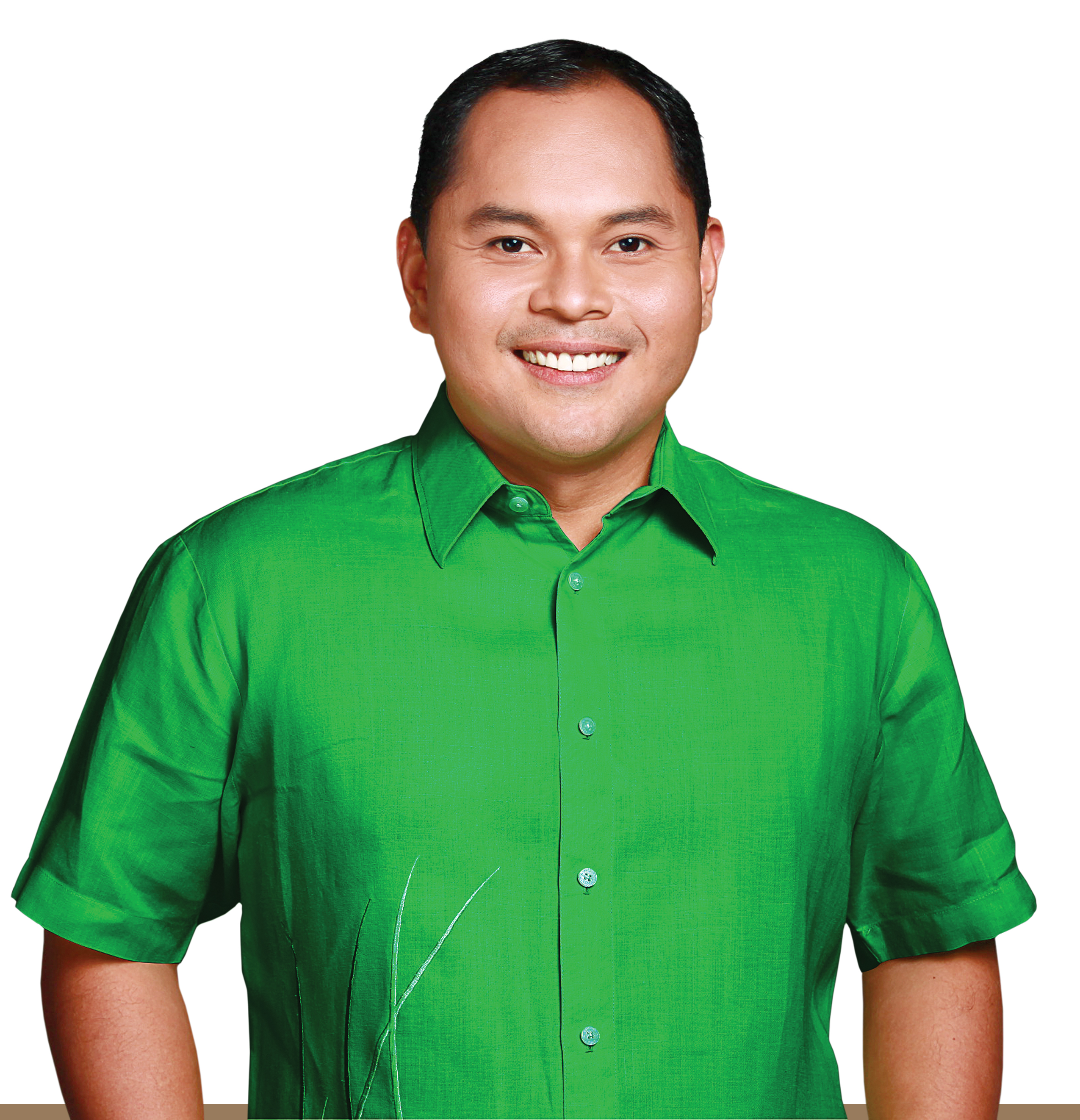 The incumbent Governor of Quezon Province